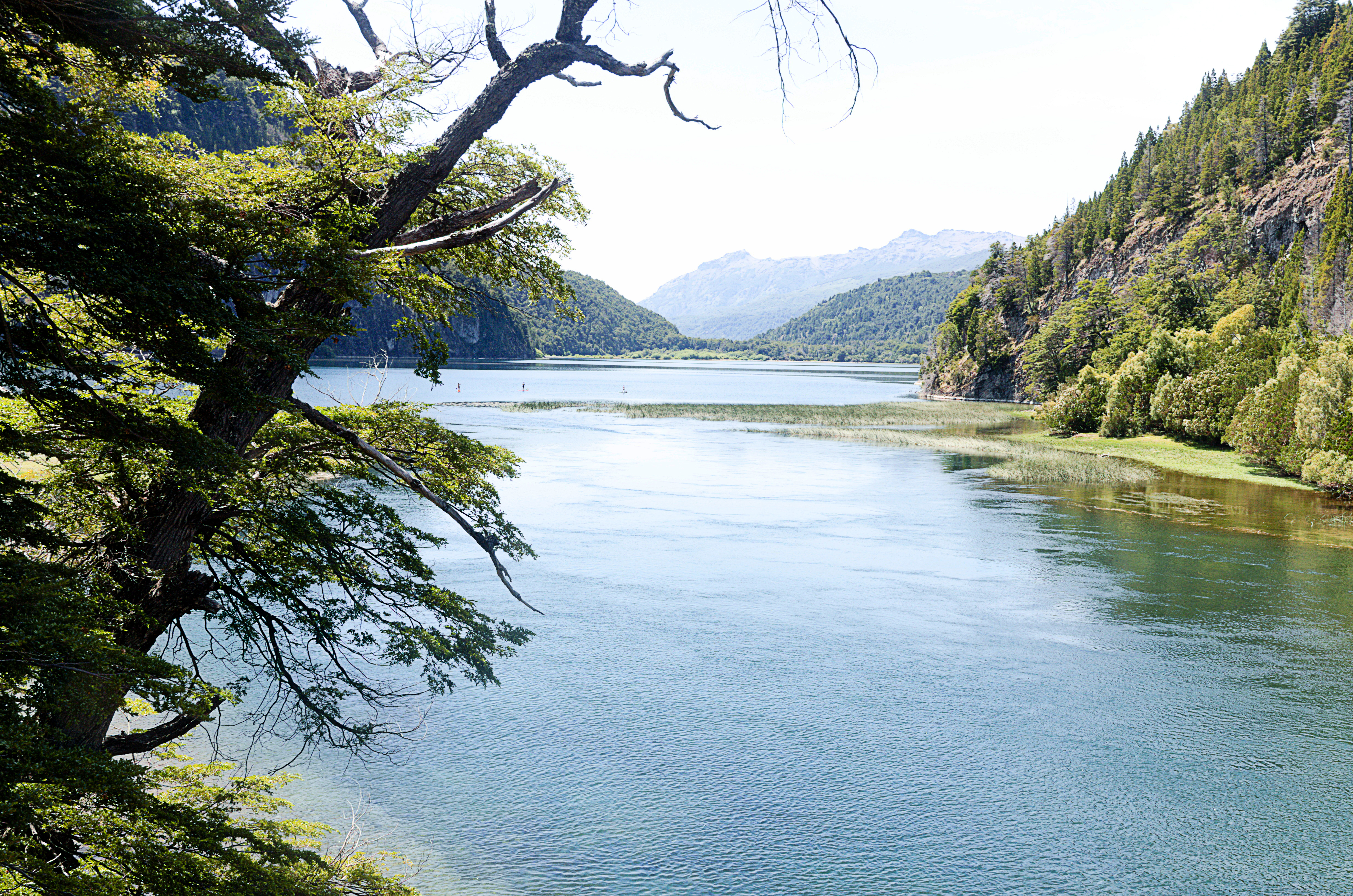 This is the view from a path near the river.